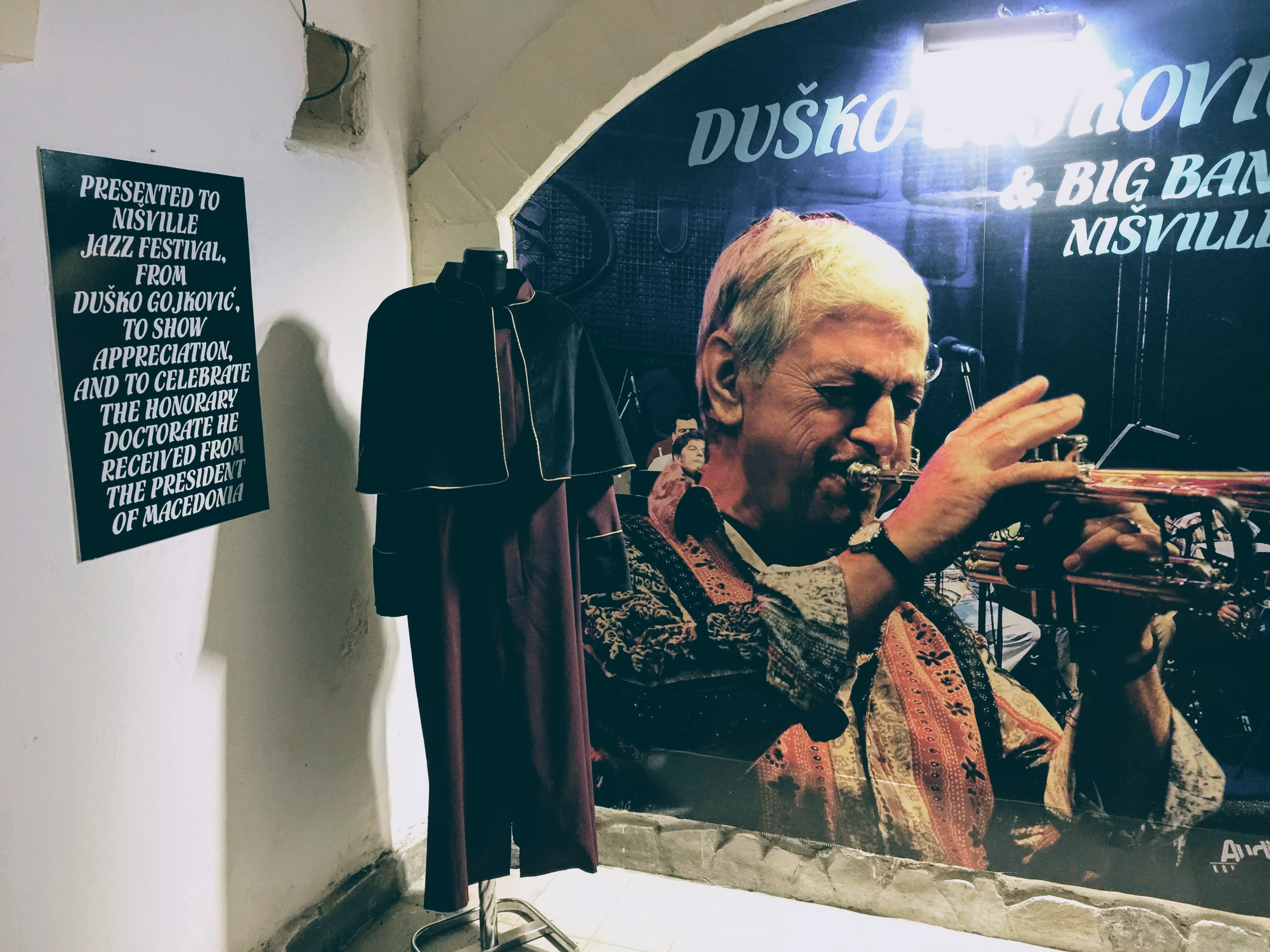 The interior of the Nisville Jazz Museum, Dusko Goykovich